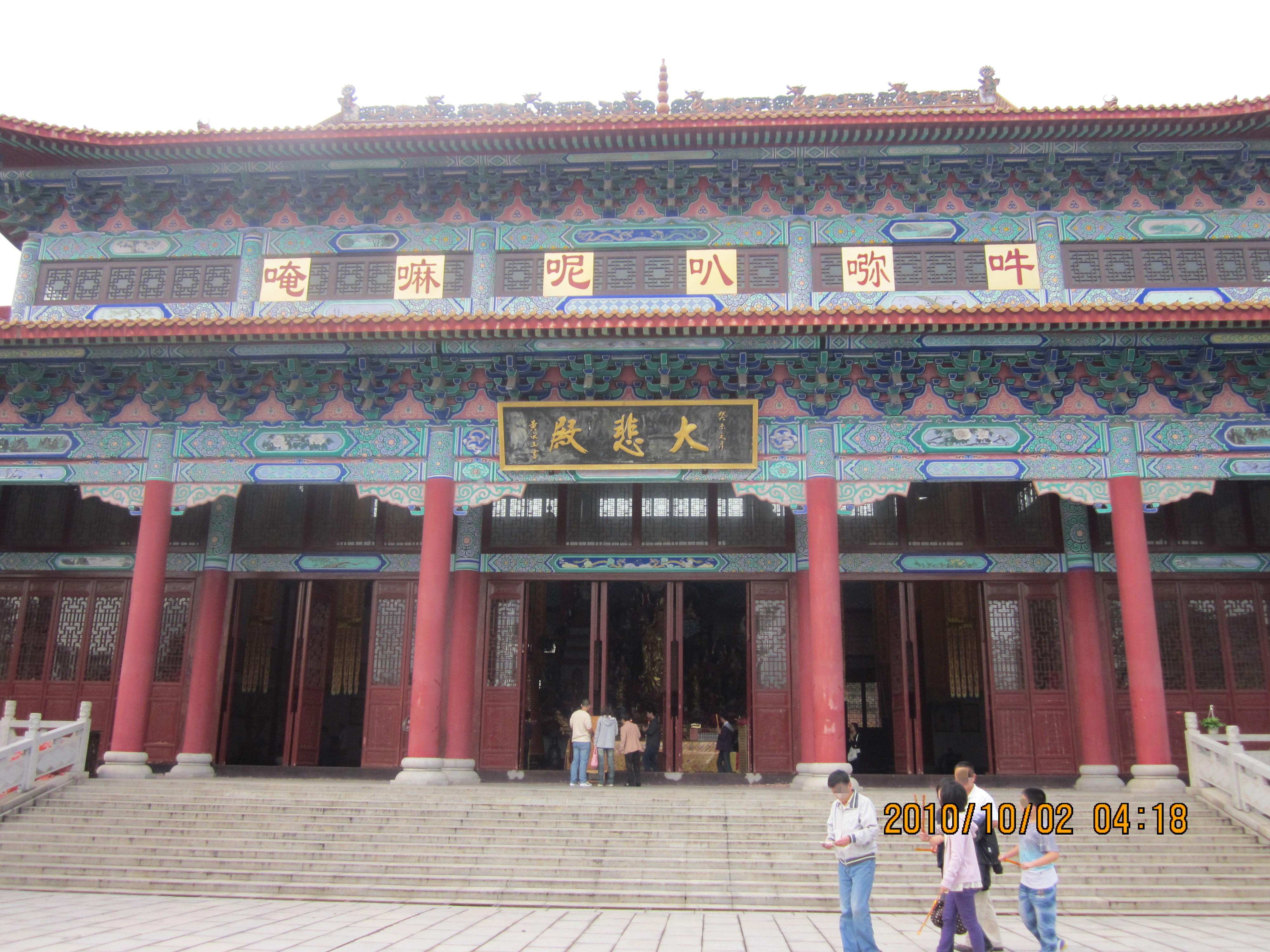 Changsha famous buddhist temple, changsha tourist attractions.This picture shows The Da Bei Palace.